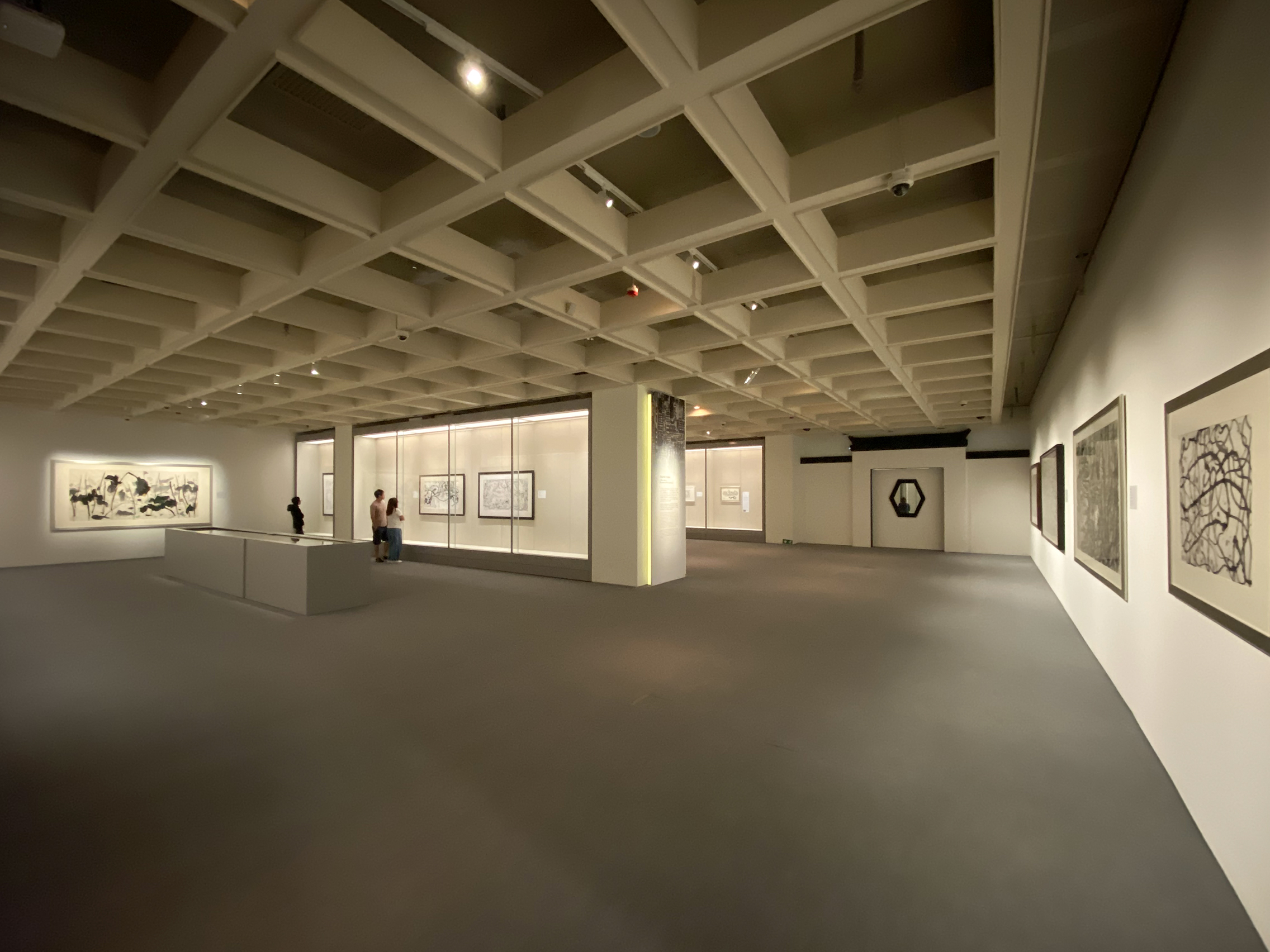 Hong Kong Museum of Art Level 4 Chinese Painting and Calligraphy Gallery